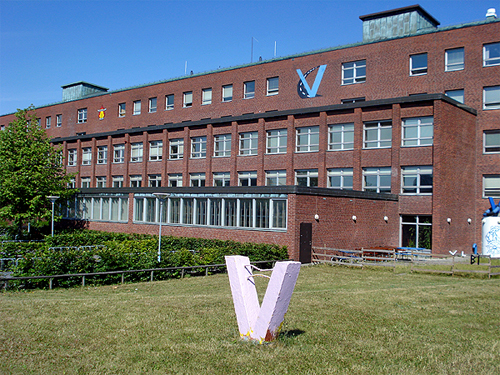 The V House, Lunds Tekniska Högskola (LTH), Lund, Sweden, 2010